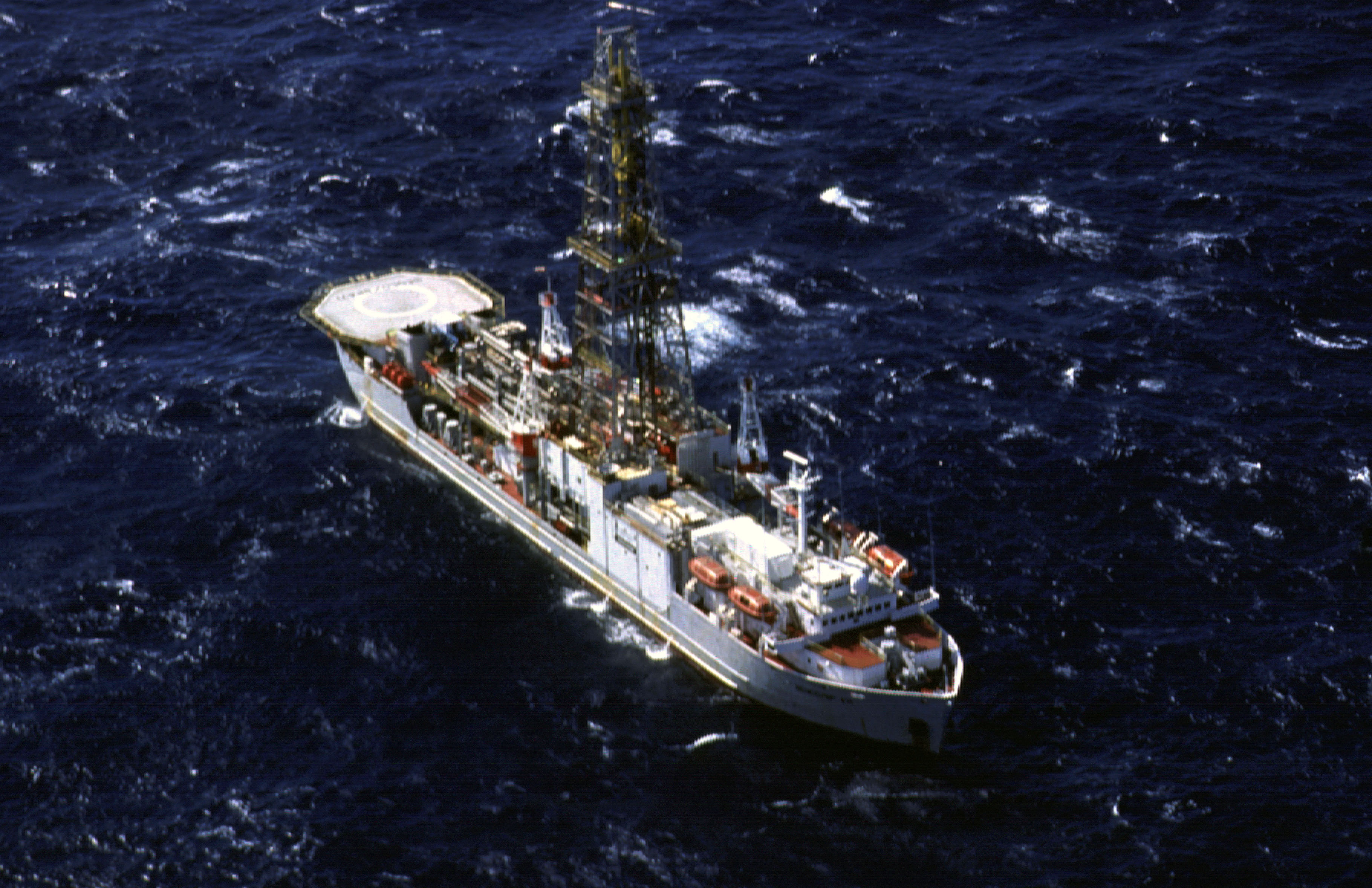 Drillship Joides Resolution used by the Ocean Drilling Programm (ODP)